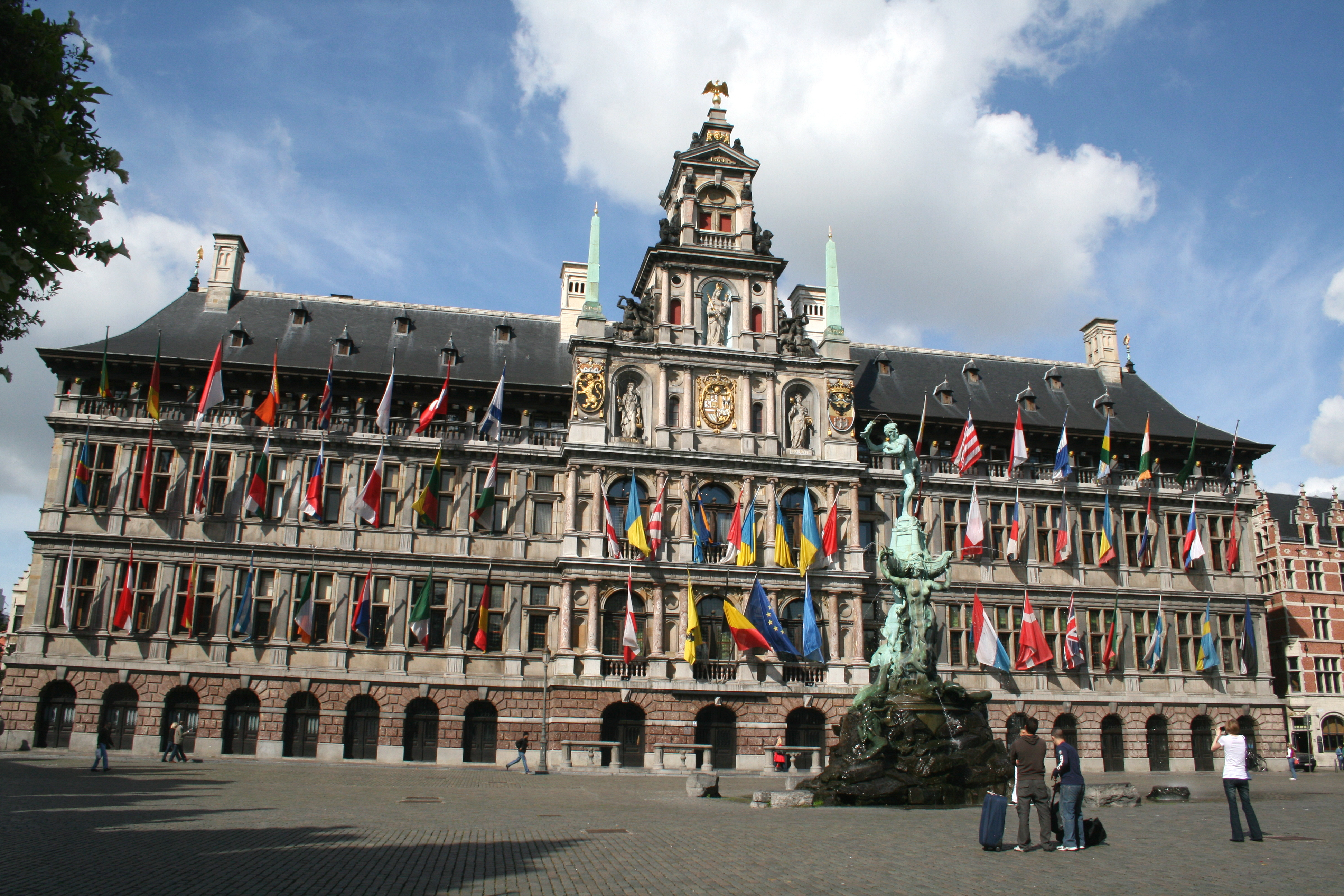 Antwerp town hall (1561-1564 - architect: Cornelis Floris de Vriendt.